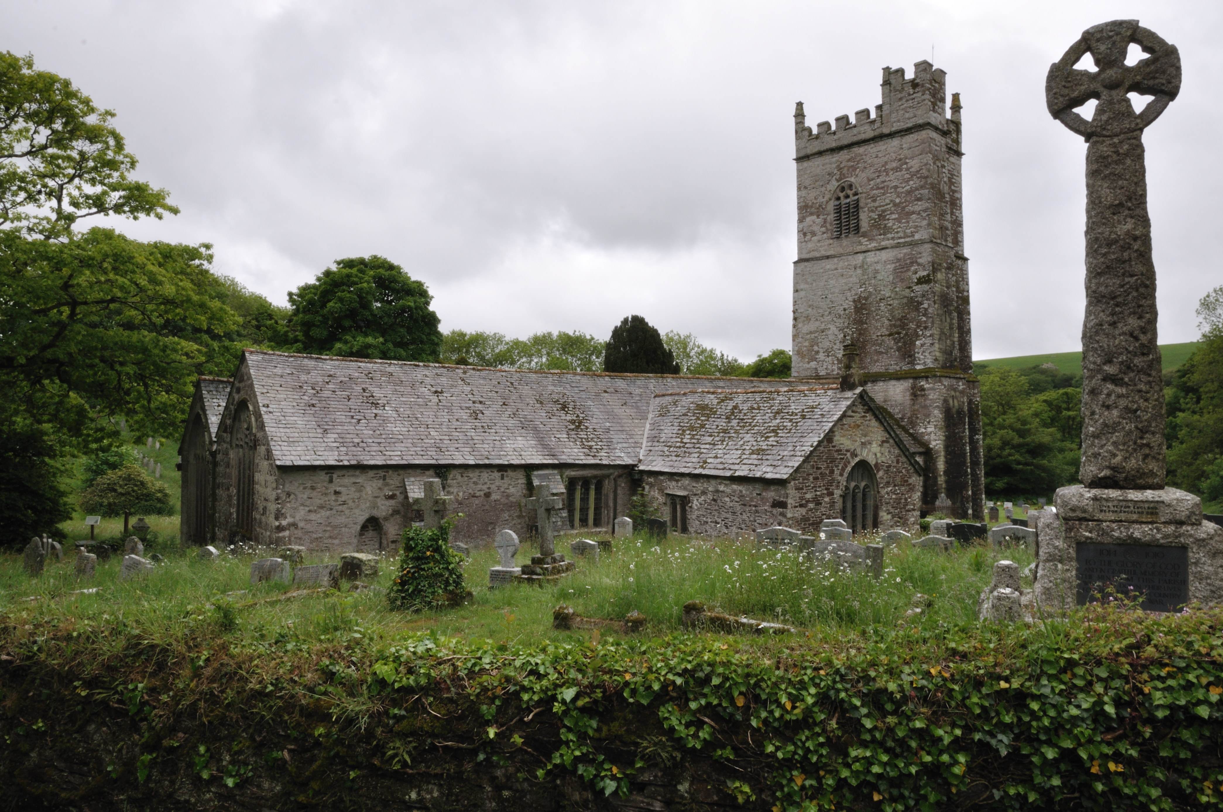 St Julitta's parish church, Lanteglos, near Camelford, Cornwall, seen from the northeast